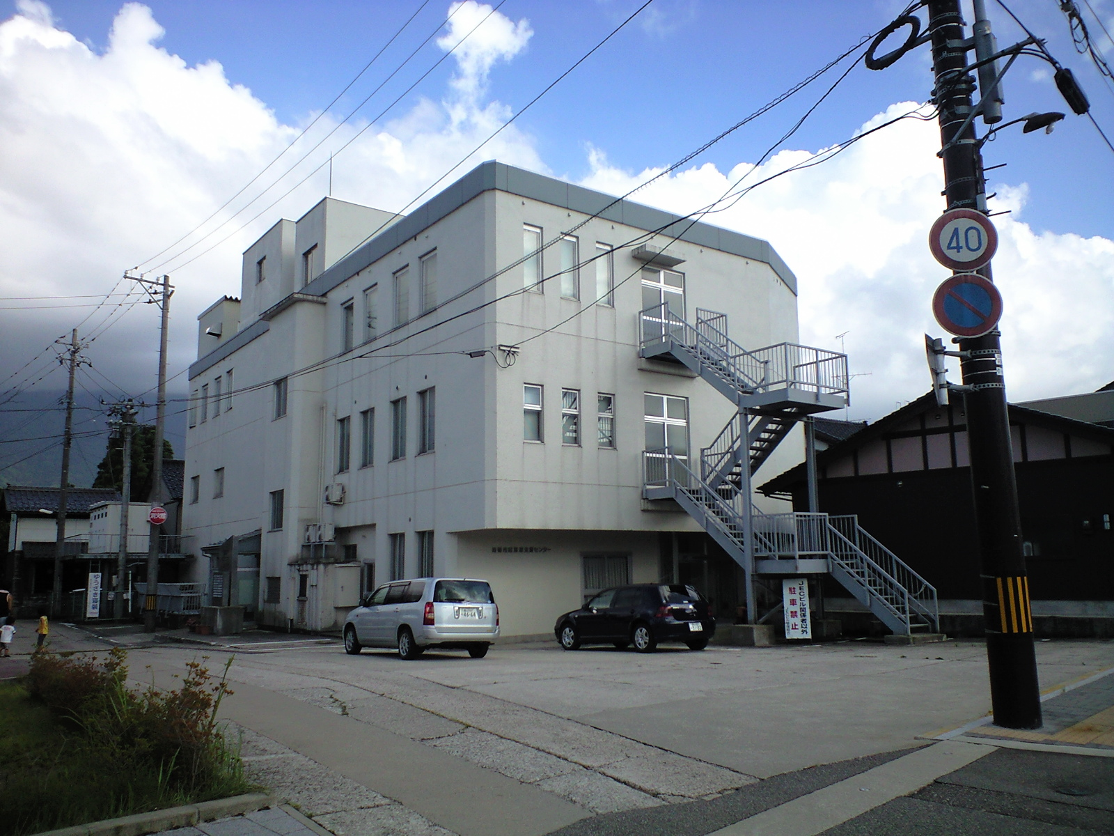 JEC (Johana Entrepreneur Center) building which P.A. WORKS, an animation studio moves in (taken on July 20th, 2008)